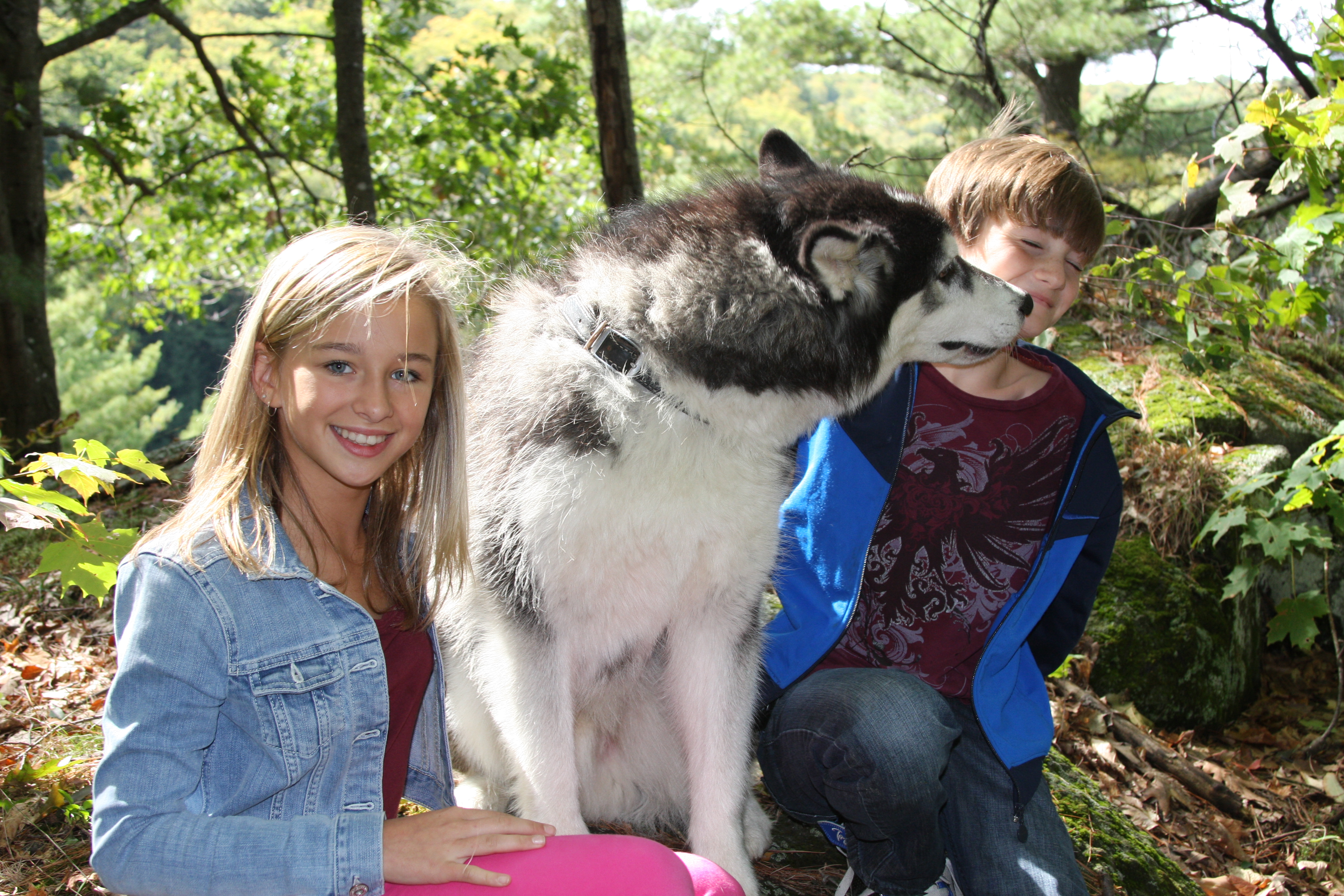 Erin Pitt, Huston, and CJ Adams. On set of, Against The Wild, 2012.